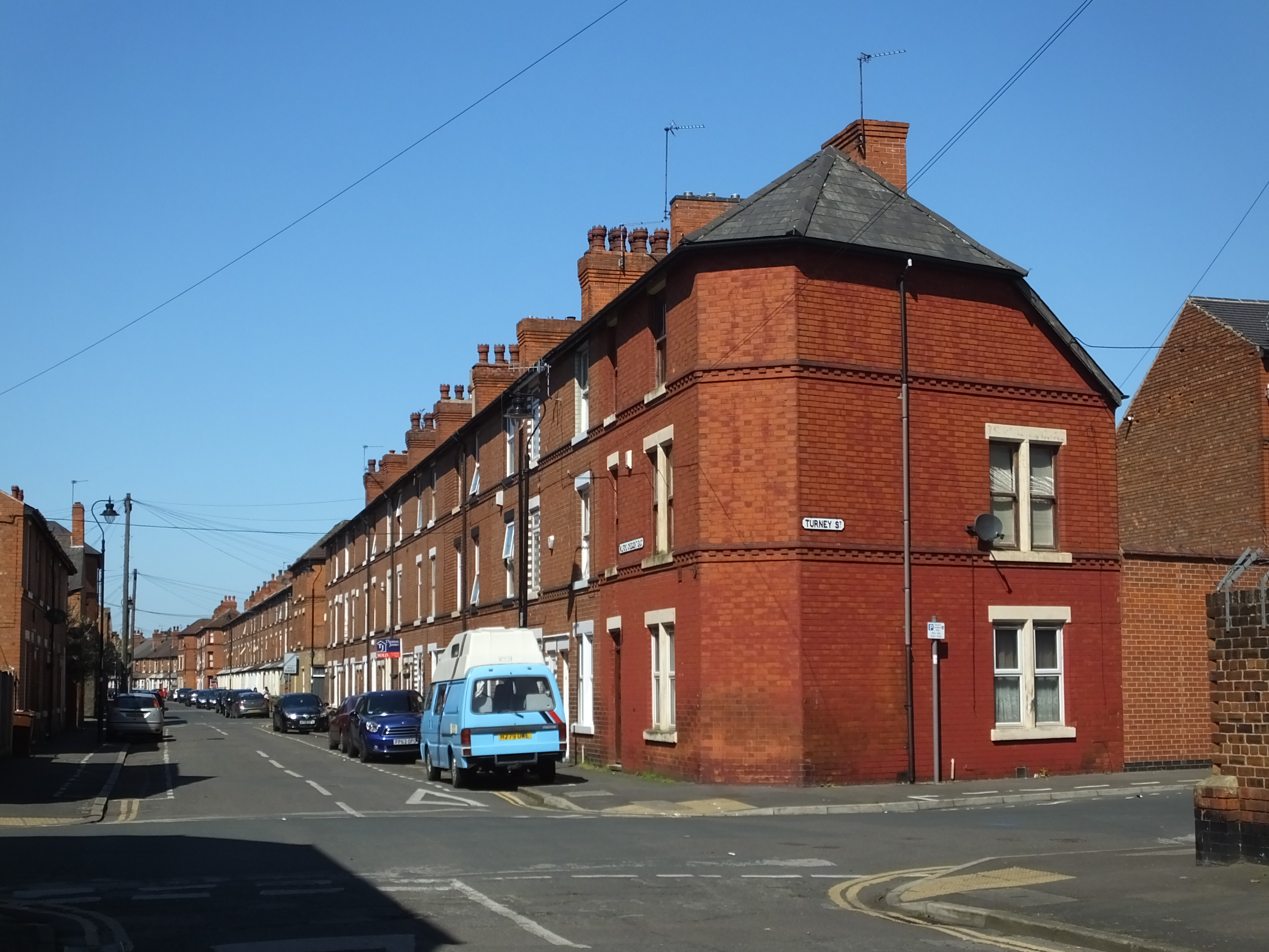 Streets in the Old Meadows, Nottingham.